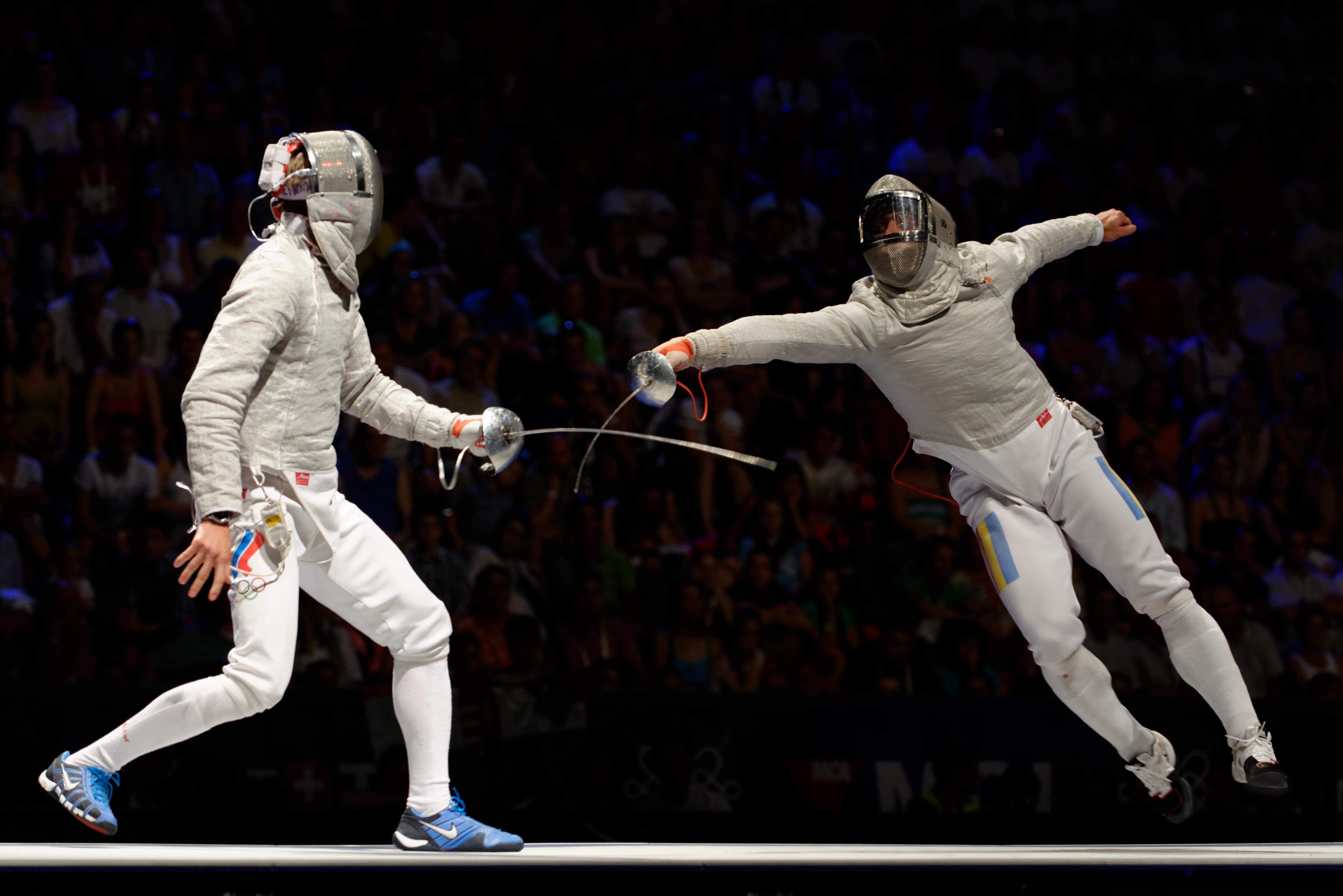 Romania's Tiberiu Dolniceanu (R) performs a flying lunge against Russia's Veniamin Reshetnikov (L) during the men's sabre semi-finals of the 2013 World Fencing Championships 2013 at Syma Hall in Budapest, 10 August 2013.